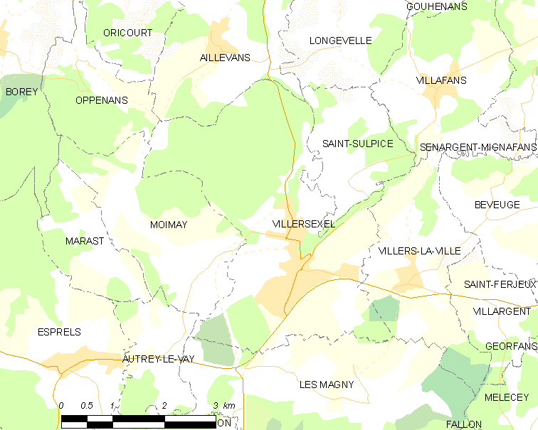 Map of French municipality